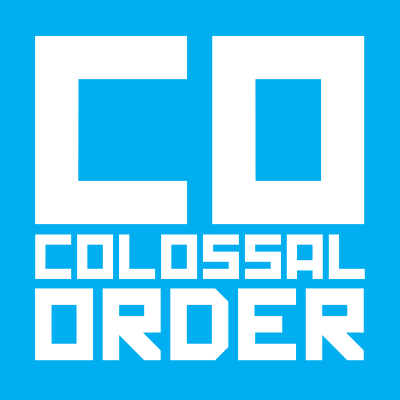 Logo for Colossal Order (March 2015)